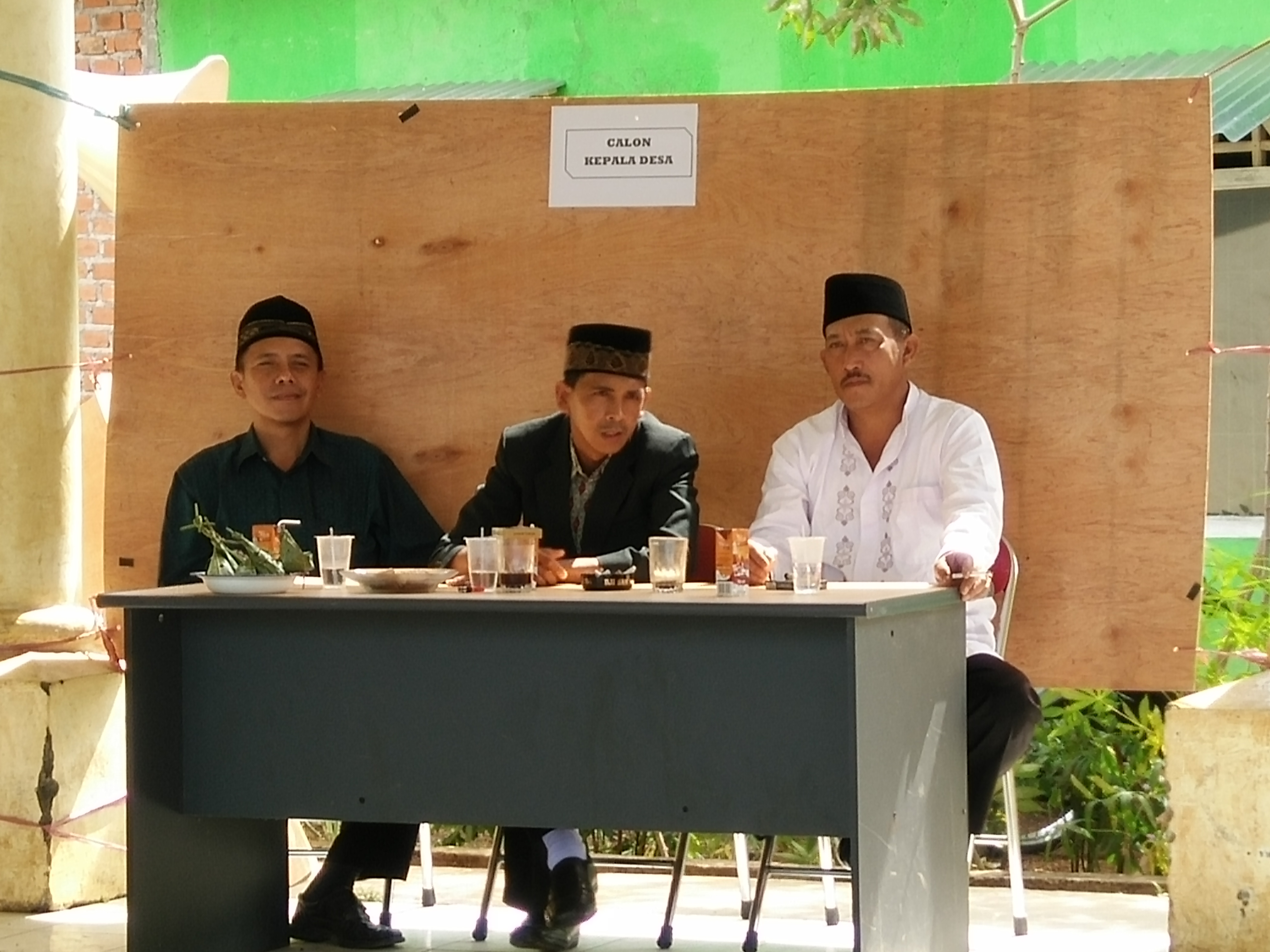 Tigers of Taba Saling